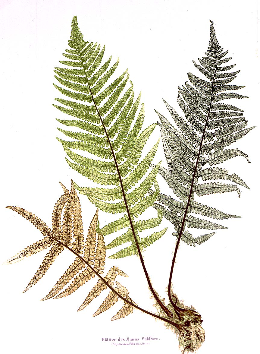 Digital reproduction of an image by Alois Auer, using the Nature printing process. Source give a title "Blätter des Mann=Waldfarn" Nature print from Alois Auer (active 1840s-1850s)